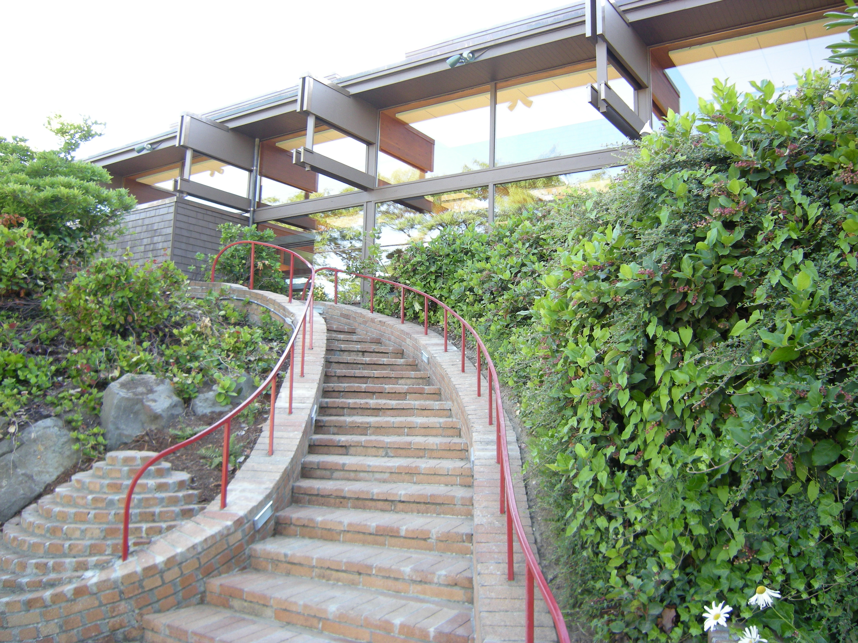 Magnolia Branch of Seattle Public Library, Magnolia, Seattle, Washington. The library is an official city landmark.